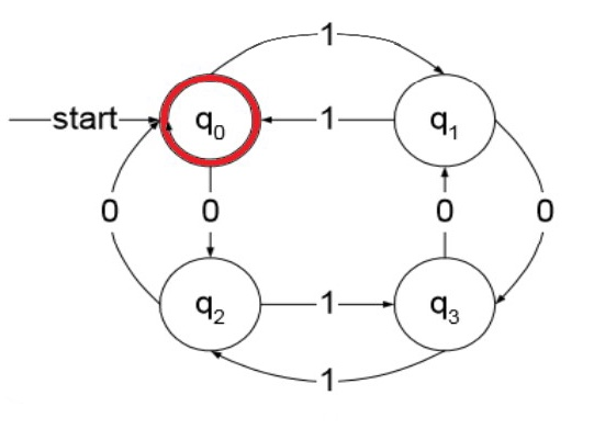 Mesin dfa